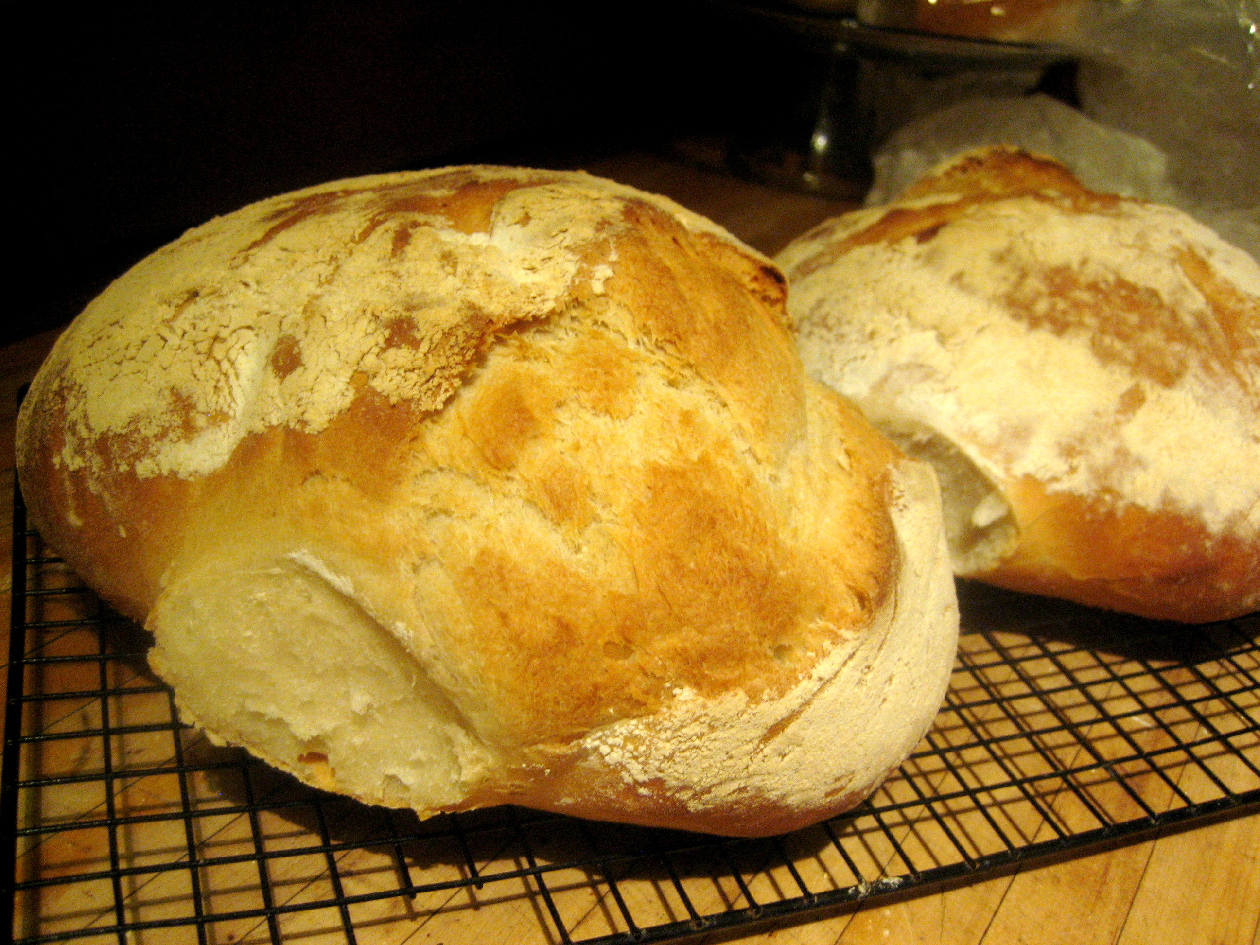 two loaves of pagnotta made with a biga, or starter dough. heavenly.